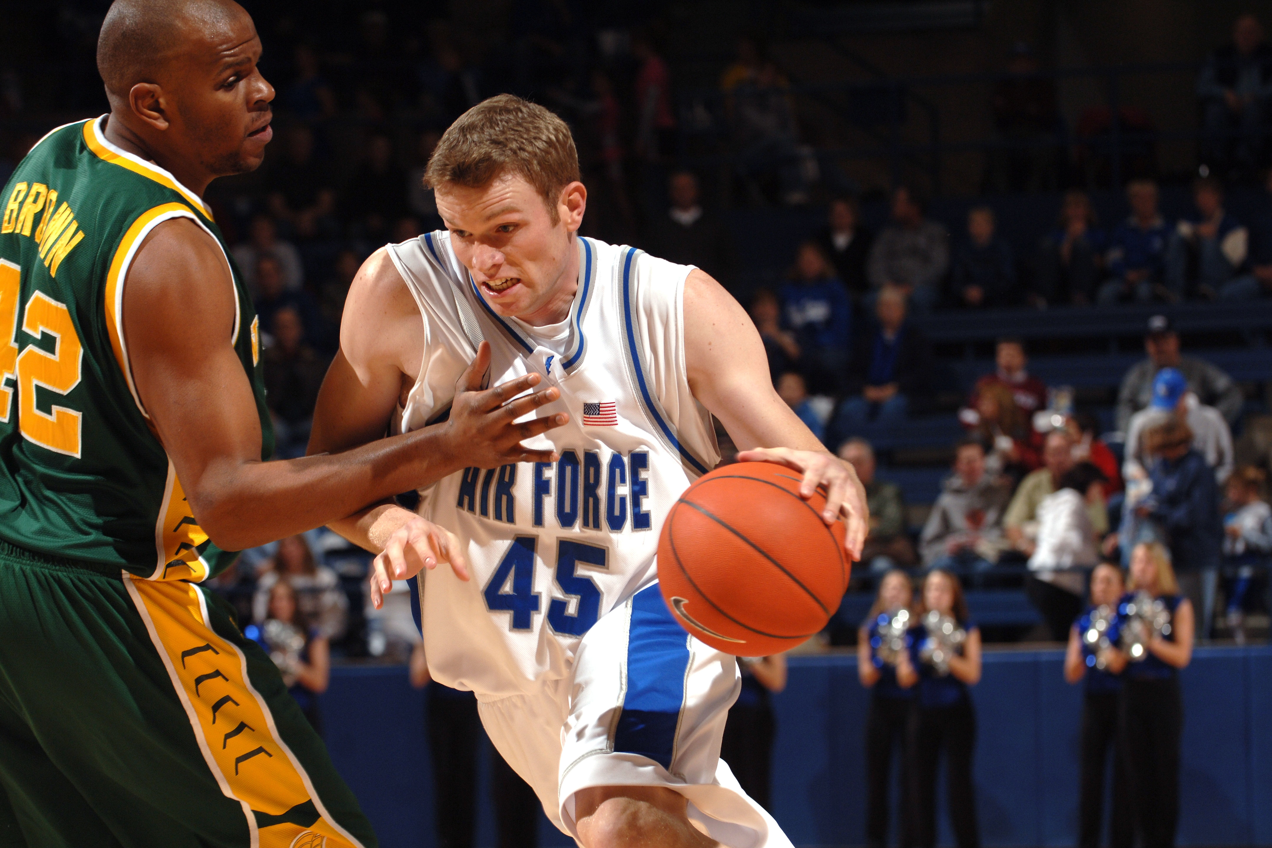 Falcon center Nick Welch drives past Norfolk State's Calvin Brown Dec. 13 at Clune Arena. Welch scored eight points and grabbed five rebounds in Air Force's 70-47 win over the Spartans. (U.S. Air Force photo/Dave Armer)